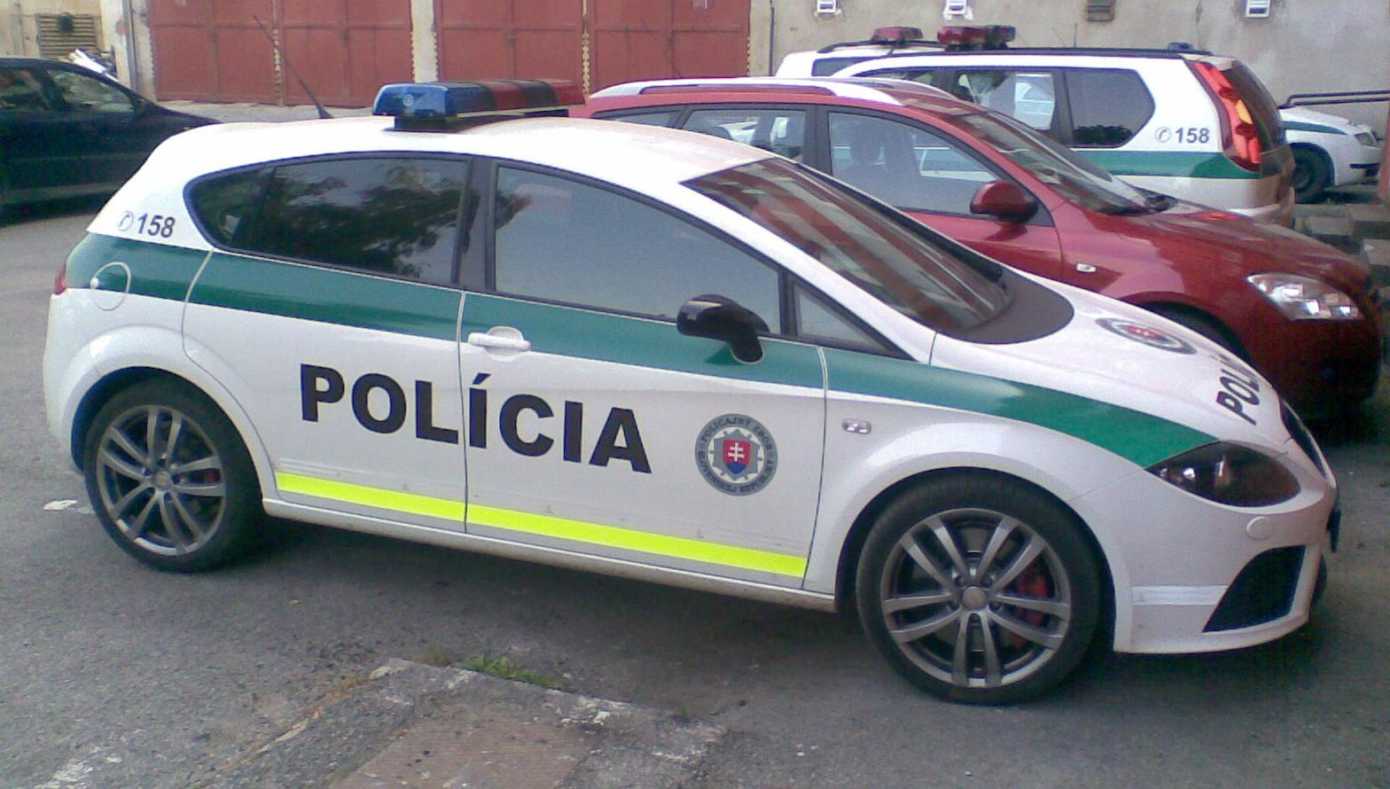 Seat Leon Cupra (Slovak police)